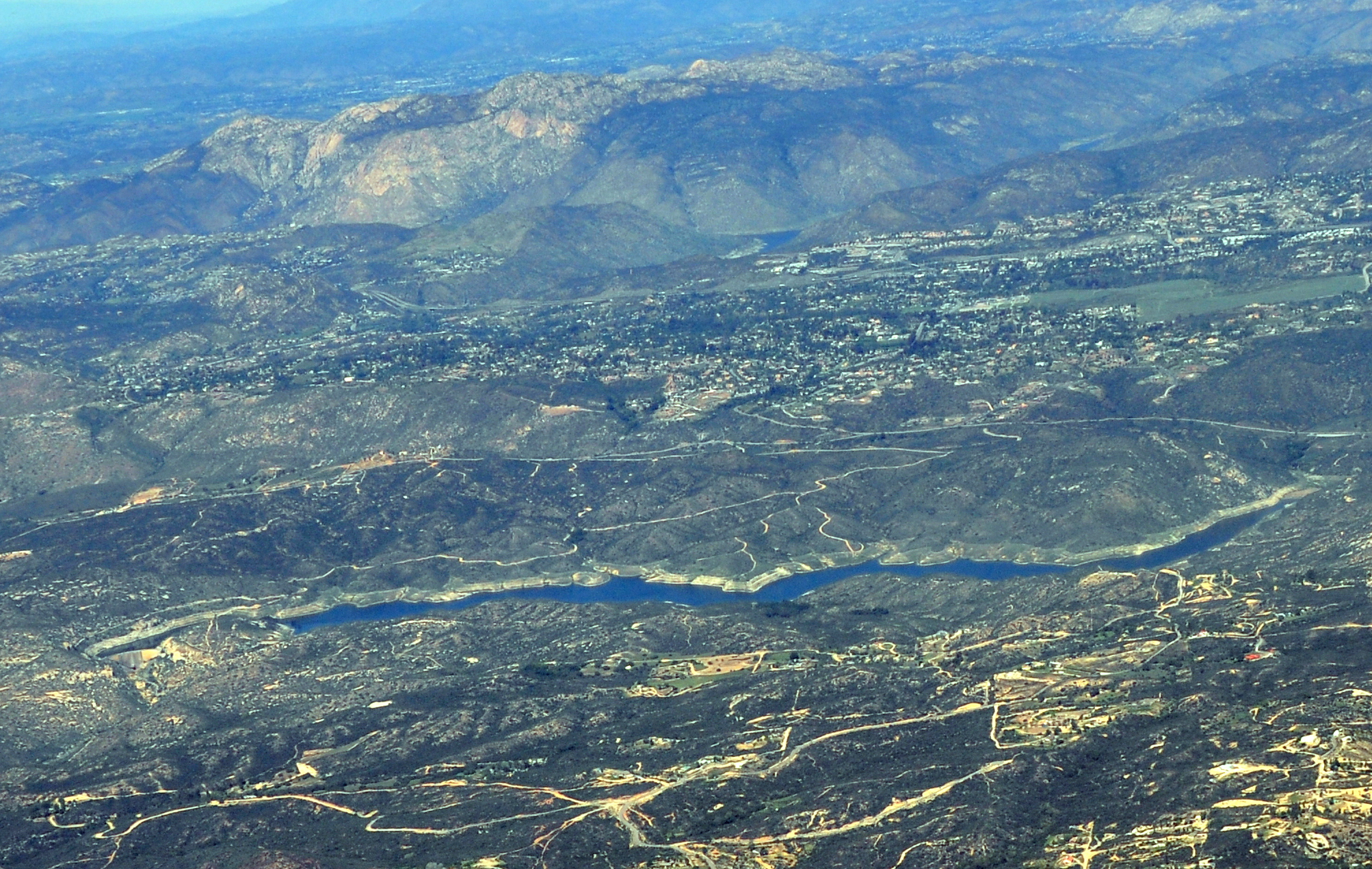 Aerial view, looking roughly north toward Loveland Reservoir, San Diego County, California.